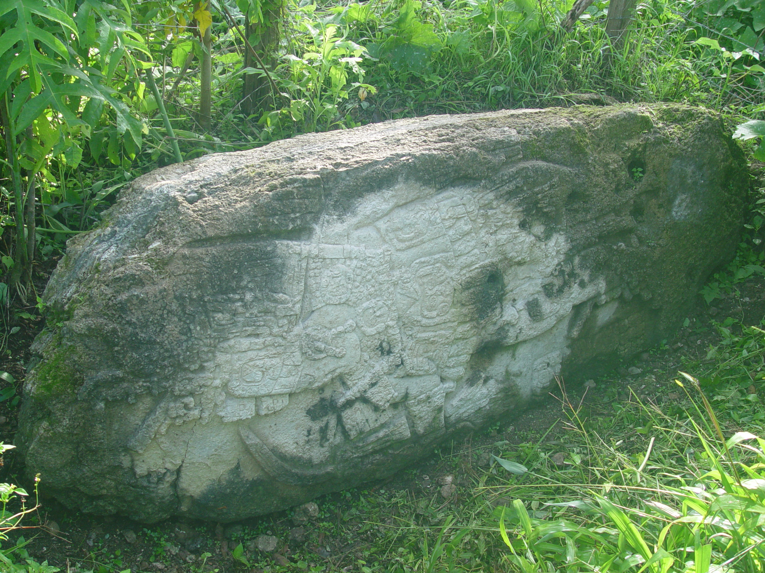 Author: James Fitzsimmons, Director of Proyecto Peten Noroccidente archaeological project. Source: James Fitzsimmons (same as username Taj Chan Ahk; I have two on Wikipedia). It's my photo, I posted it on my project website as well ( Stela at Zapote Bobal, Peten Department, Guatemala.